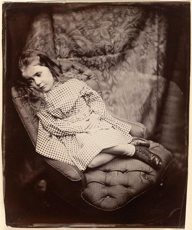 Lewis Carroll (the Reverend Charles Lutwidge Dodgson) English, 1832–1898 Margaret Frances Langton Clarke, 1864 Albumen print 15.2 x 11.6 cm Gift of Mrs. John W. Taylor, Mrs. Winthrop M. Robinson, Jr., and Mrs. Fred D.